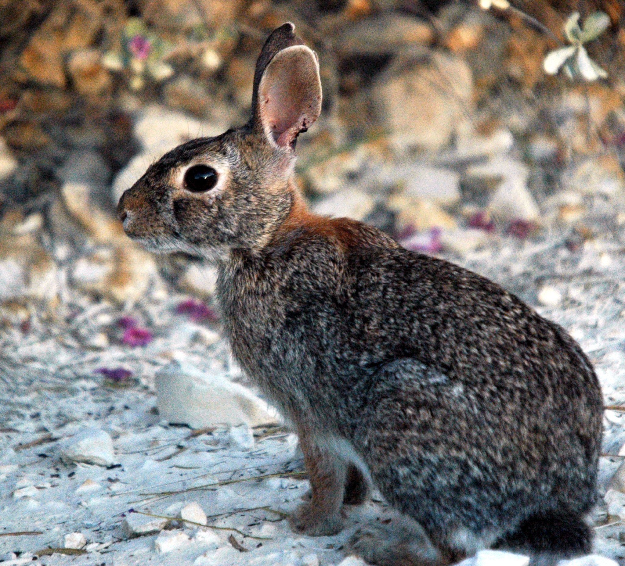 Sitting along the park road. I'm guessing his/her ears are torn up from fighting with other rabbits? Peter Cottontail!